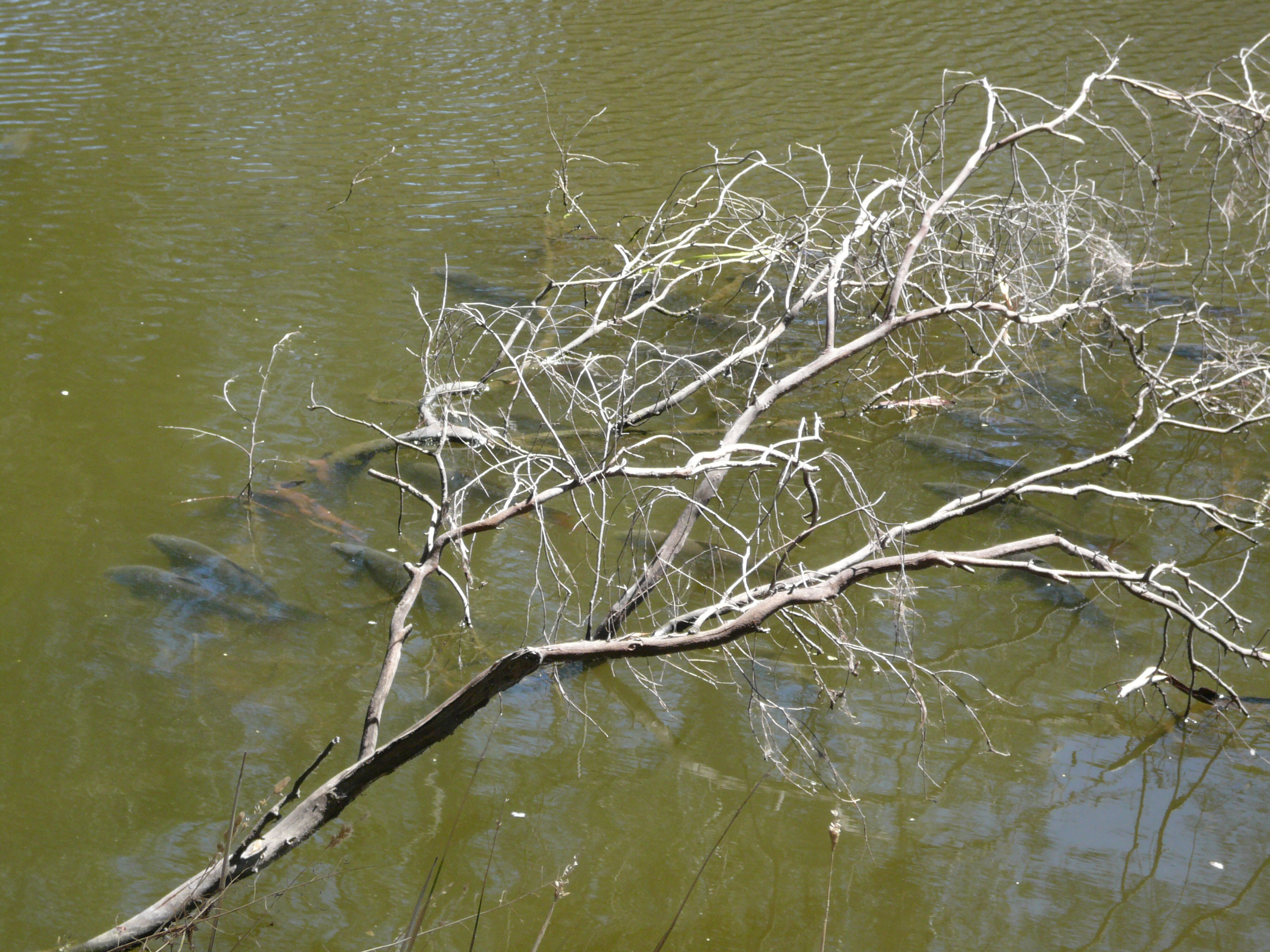 Carps in Maribyrnong River, Avondale Heights, Victoria, Australia. Picture taken in a drought period.